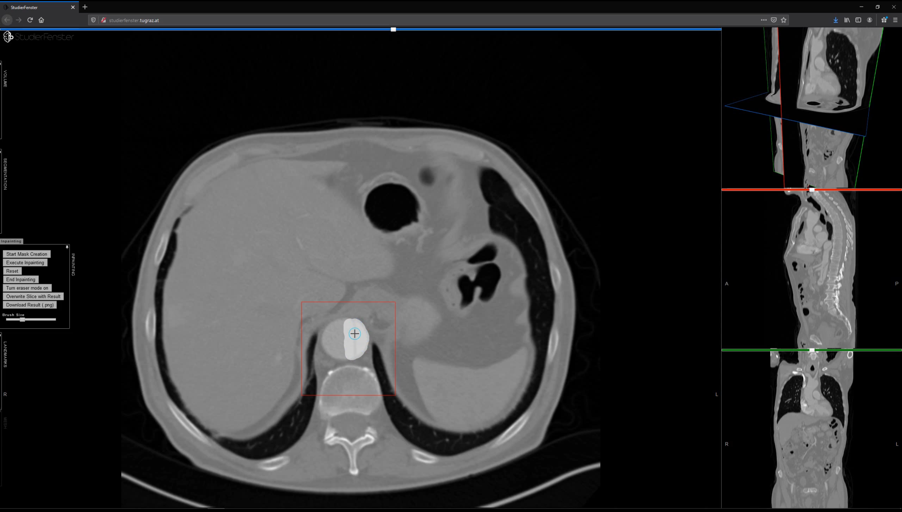 Studierfenster is an Open Science client/server-based Medical Imaging Processing (MIP) online framework The screenshot shows the inpainting of an aortic dissection with an Generative Adversarial Network (GAN) in an Computed Tomography Angiography (CTA) scan of a patient.